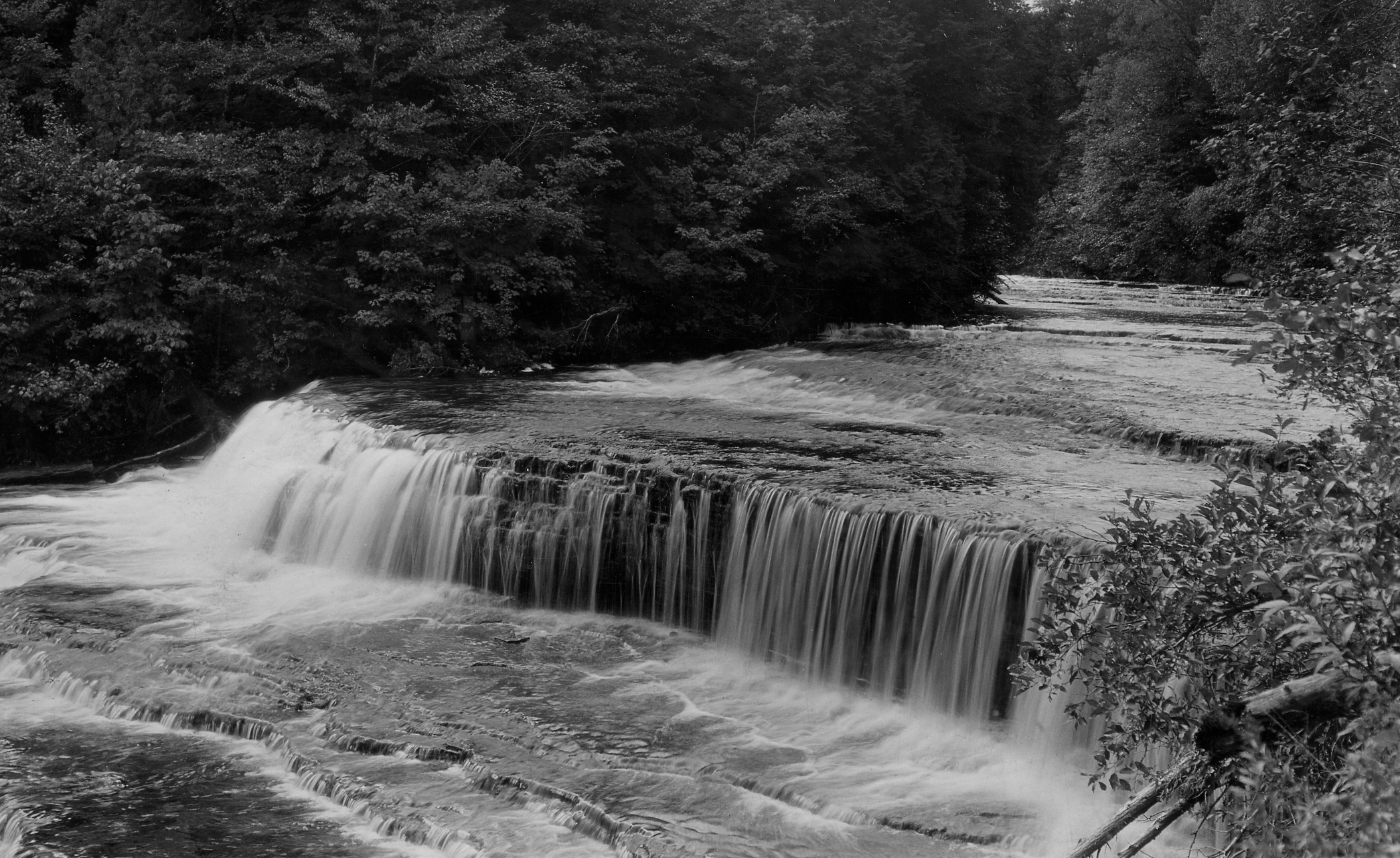 Scope and content: Original caption: Au Train Falls, Alger County, Michigan. Upper Mich NF.